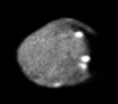 Amalthea: photo by Voyager 1 from the distance 425 km (5 March 1979). North is up, central latitude is 4° N, central longitude — 195° W. Upper bright spot is called Ida Facula, lower — Lyctos Facula.